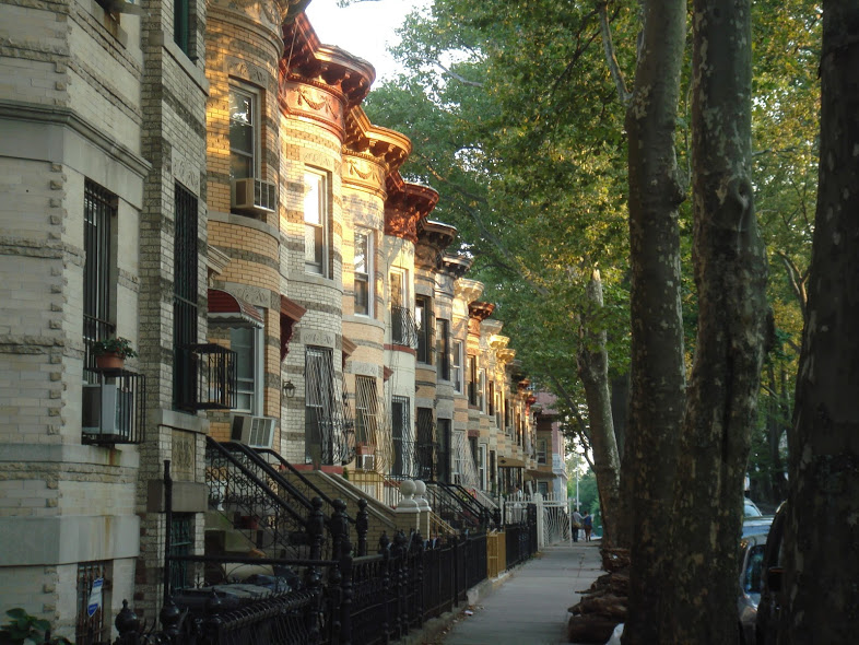 Row houses in Bushwick, Brooklyn. Posted by photographer.